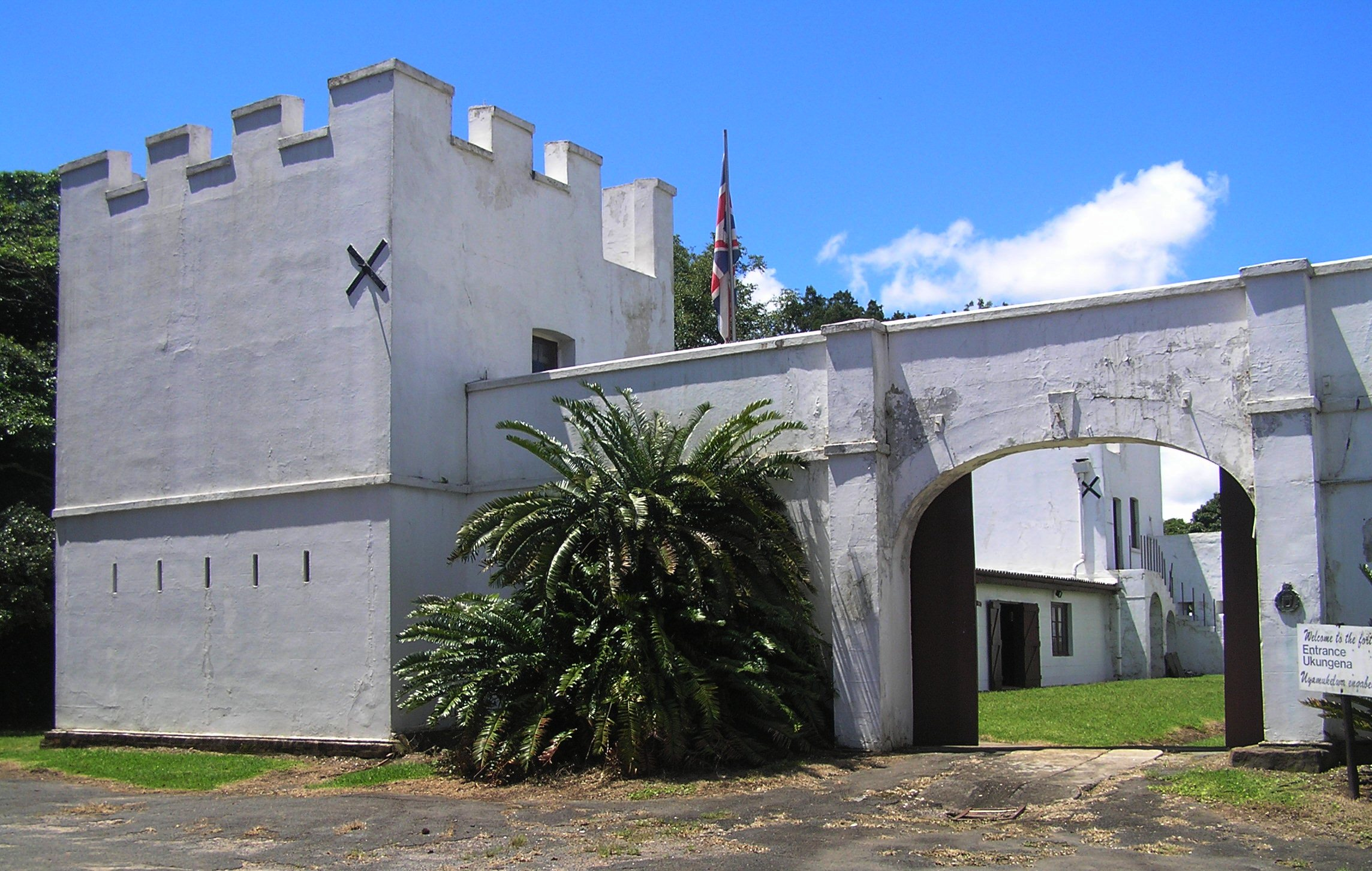 Fort Nongqayi - built by the British in 1863